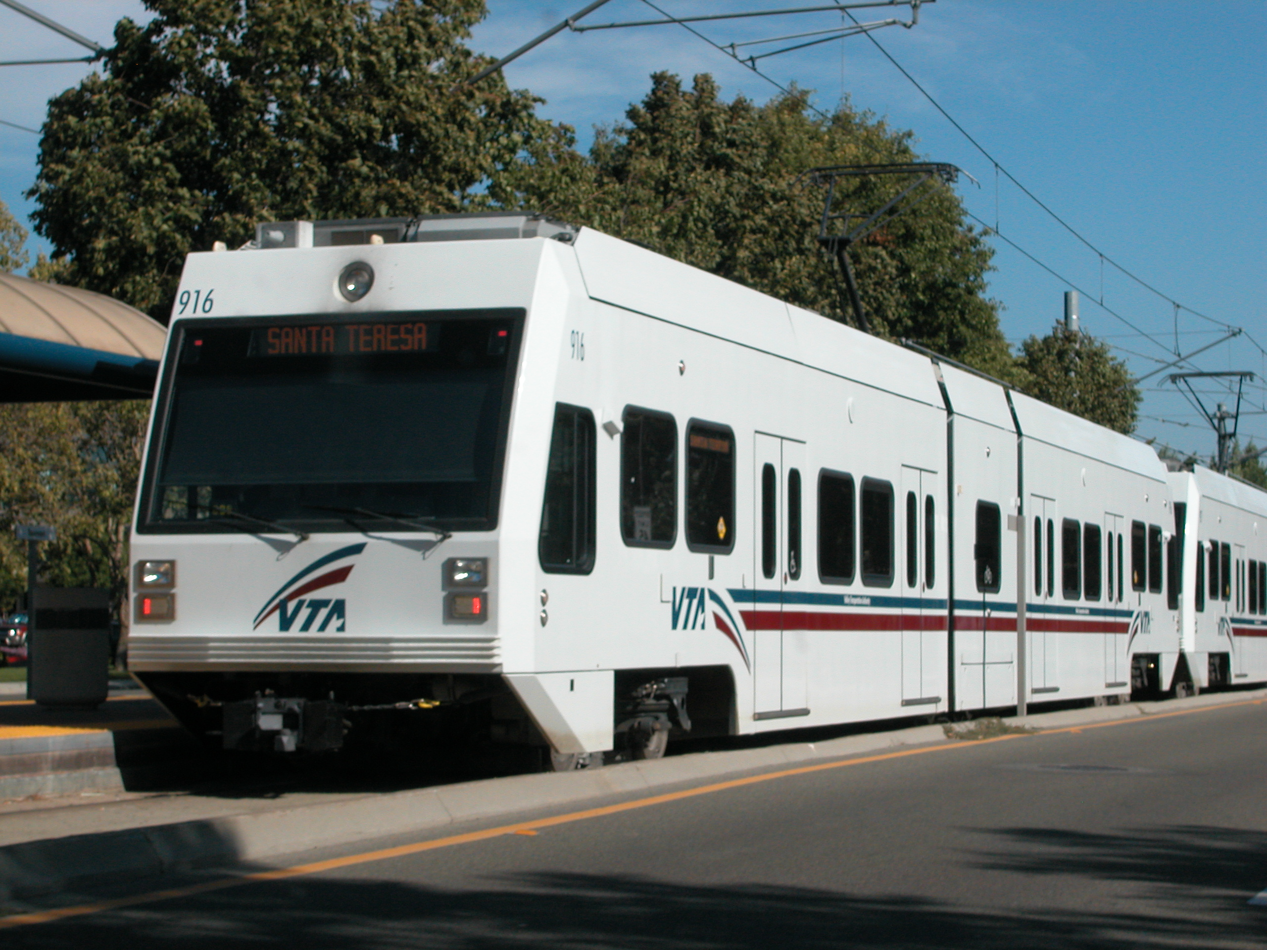 This Picture is front/back of VTA Light Rail Transit. Taken on August 11th, 2005 at Tasman Station, originally contributed by User:Snty-tact.